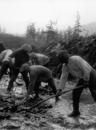 Construction of the bridge through the Kolyma by the workers Of the Dalstroy (part of the 'Road of Bones' from Magadan to Jakutsk)